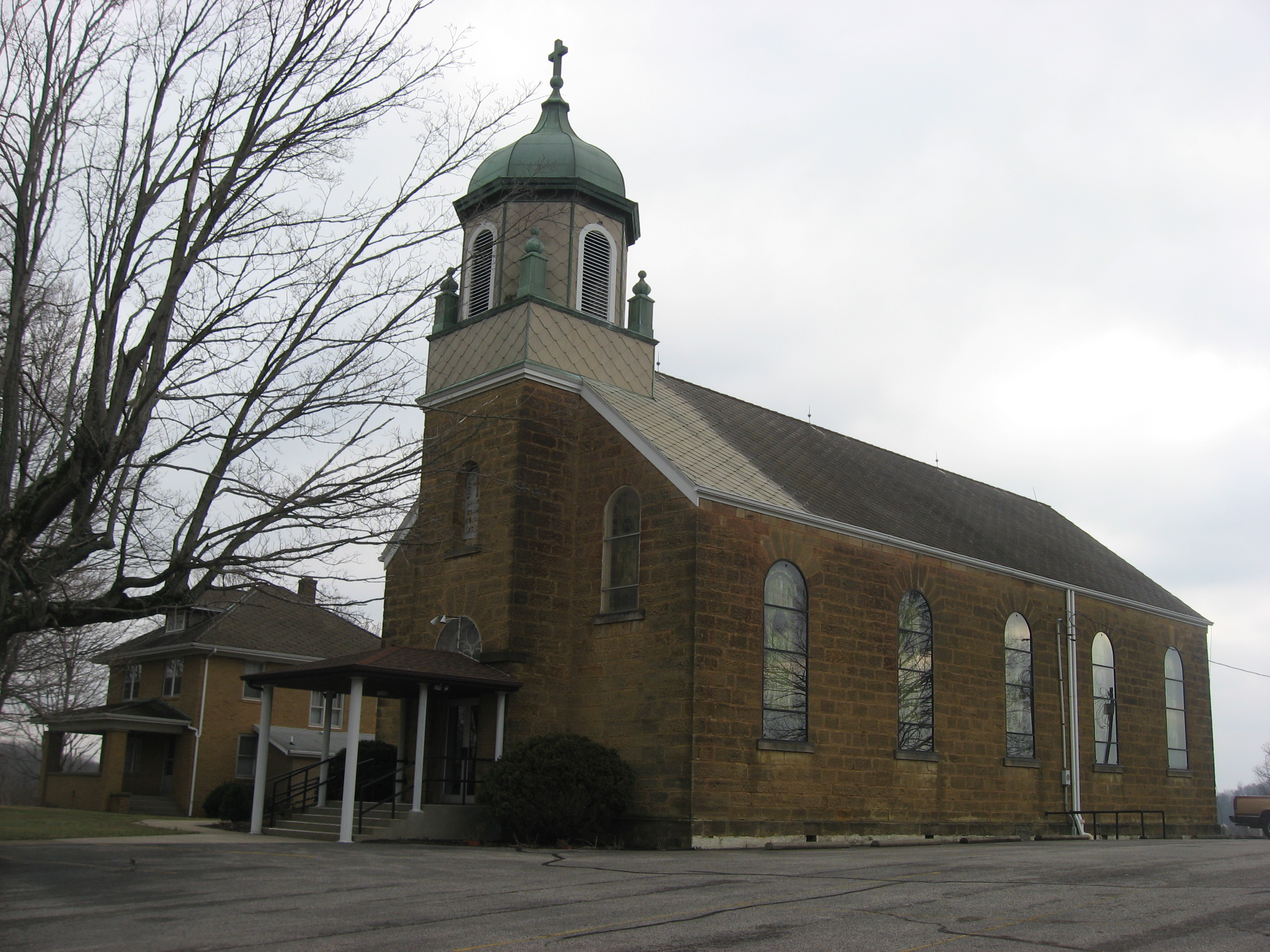 Front and western side of Holy Cross Catholic Church, located along State Road 62 in eastern St. Croix, Indiana, United States. It was built in 1882 for a mostly French and Irish parish.